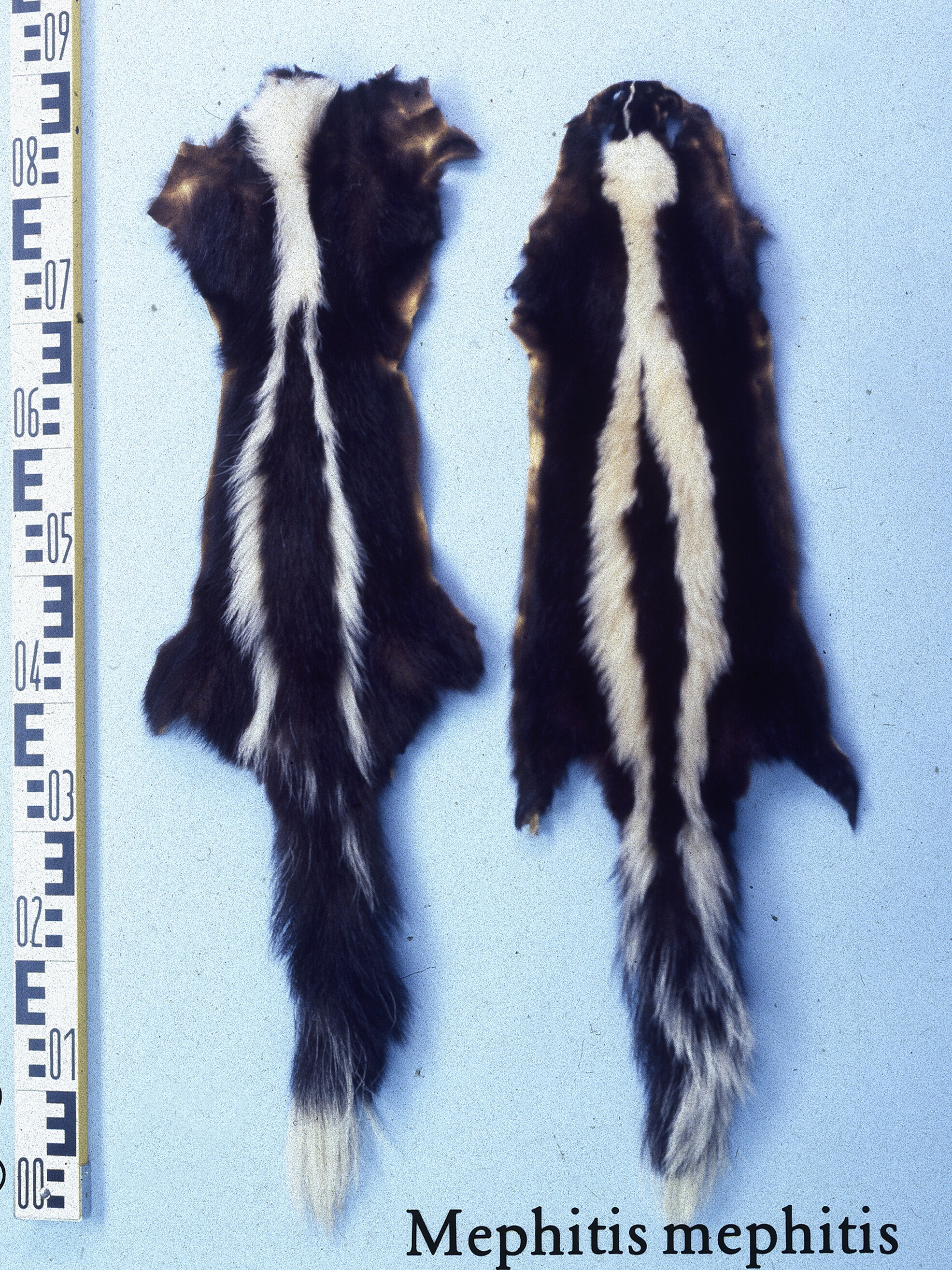 Striped skunks fur skins(Mephitis mephitis). Fur skin collection, Bundes-Pelzfachschule, Frankfurt/Main, Germany